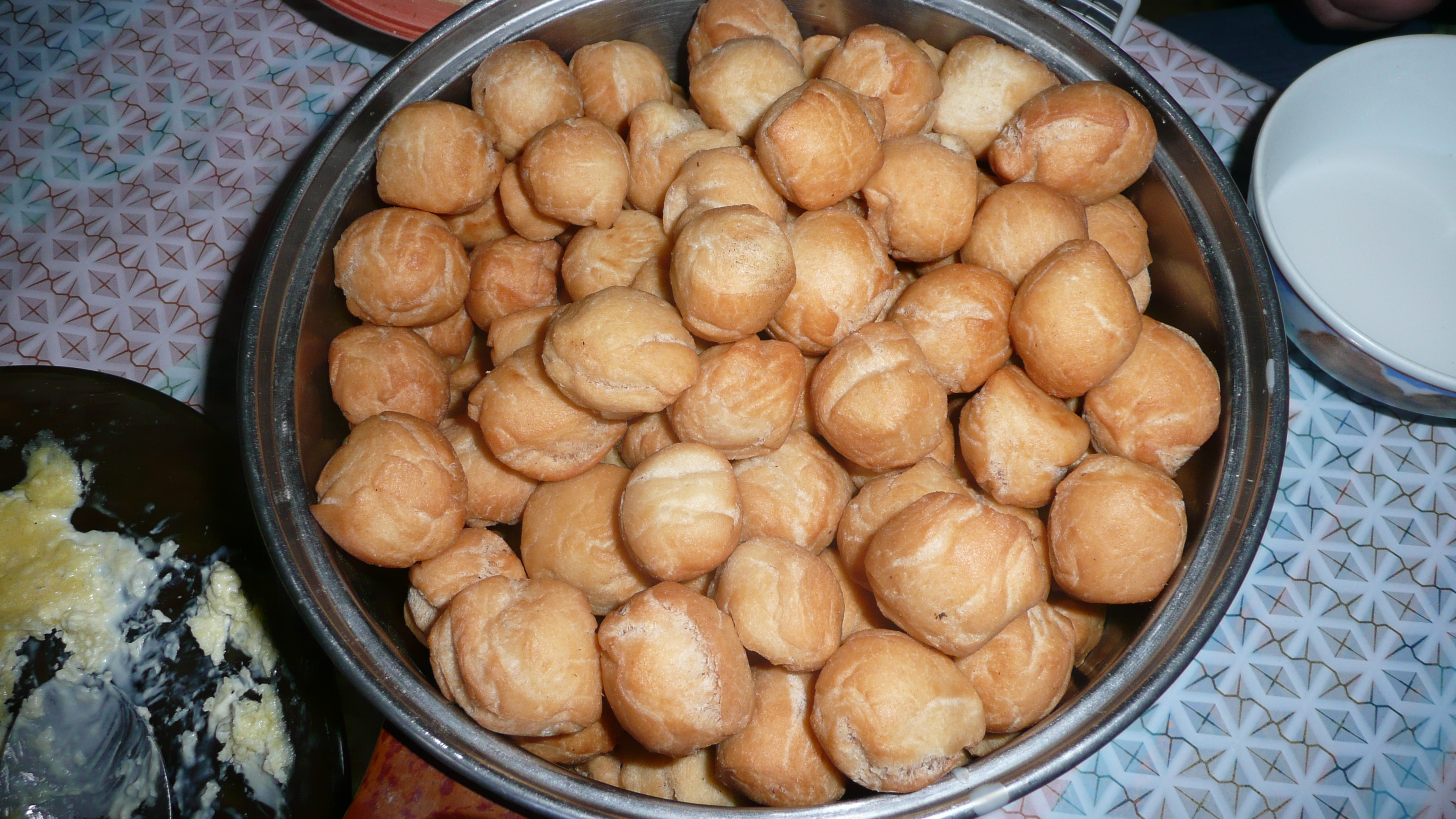 Boortsog